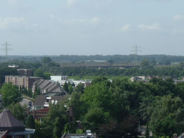 Provisory bridge on the Meuse river at Gennep, province of Limburg, the Netherlands; which has been taken by surprise at the beginning of world war III.